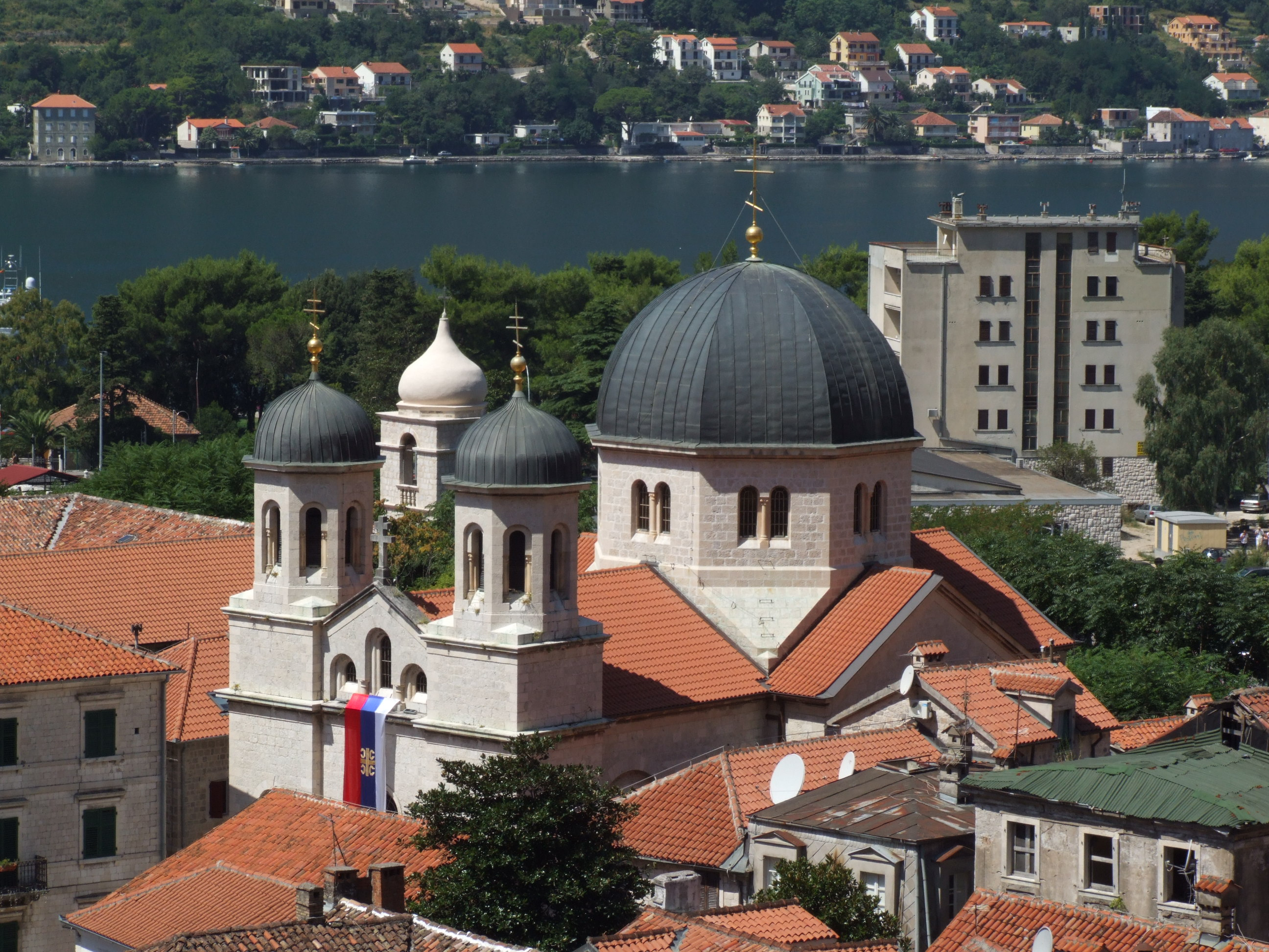 Kotor - Serbian Orthodox church